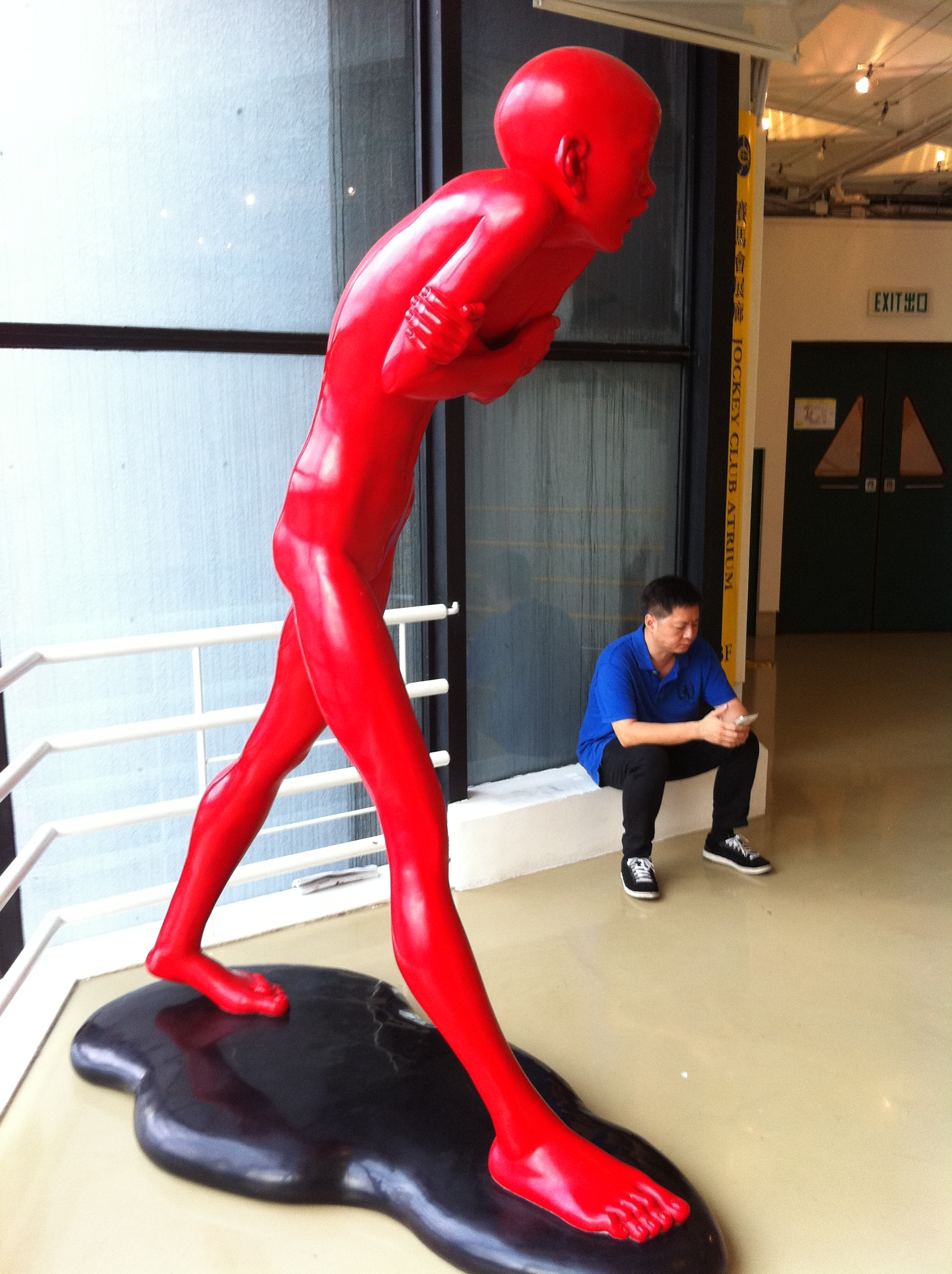 香港藝術中心, Hong Kong Arts Centre, Wan Chai, Hong Kong 陳文令 Chen WenLing